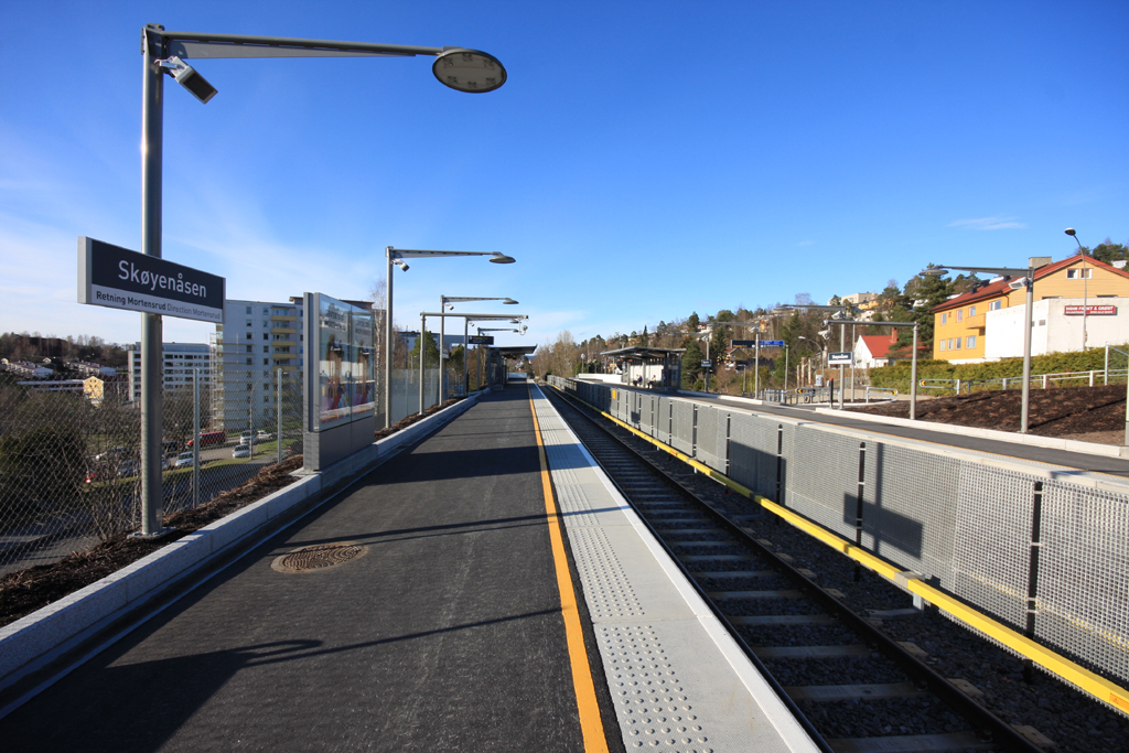 Sköyenasen Metrostation. Seen from the southeastbound platform. Towards Godlia-direction.